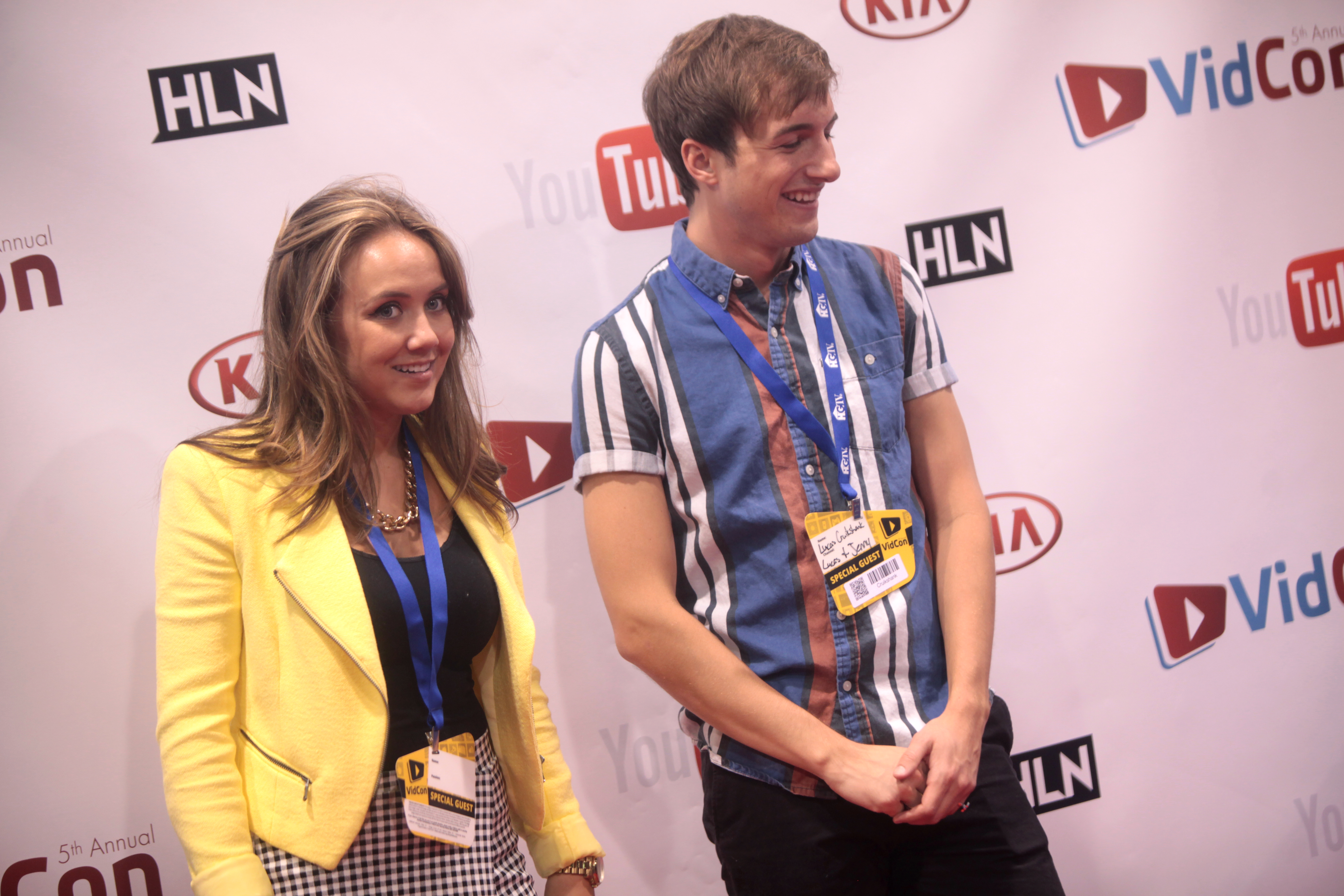 Lucas Cruikshank and Jennifer Veal speaking at the 2014 VidCon at the Anaheim Convention Center in Anaheim, California.